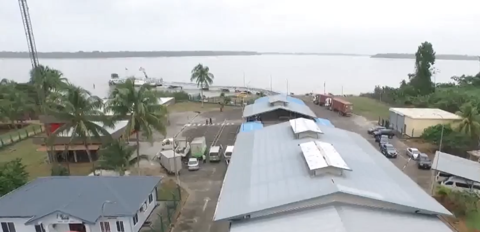 Ferry service Canawaima at South Drain, Nickerie, Suriname